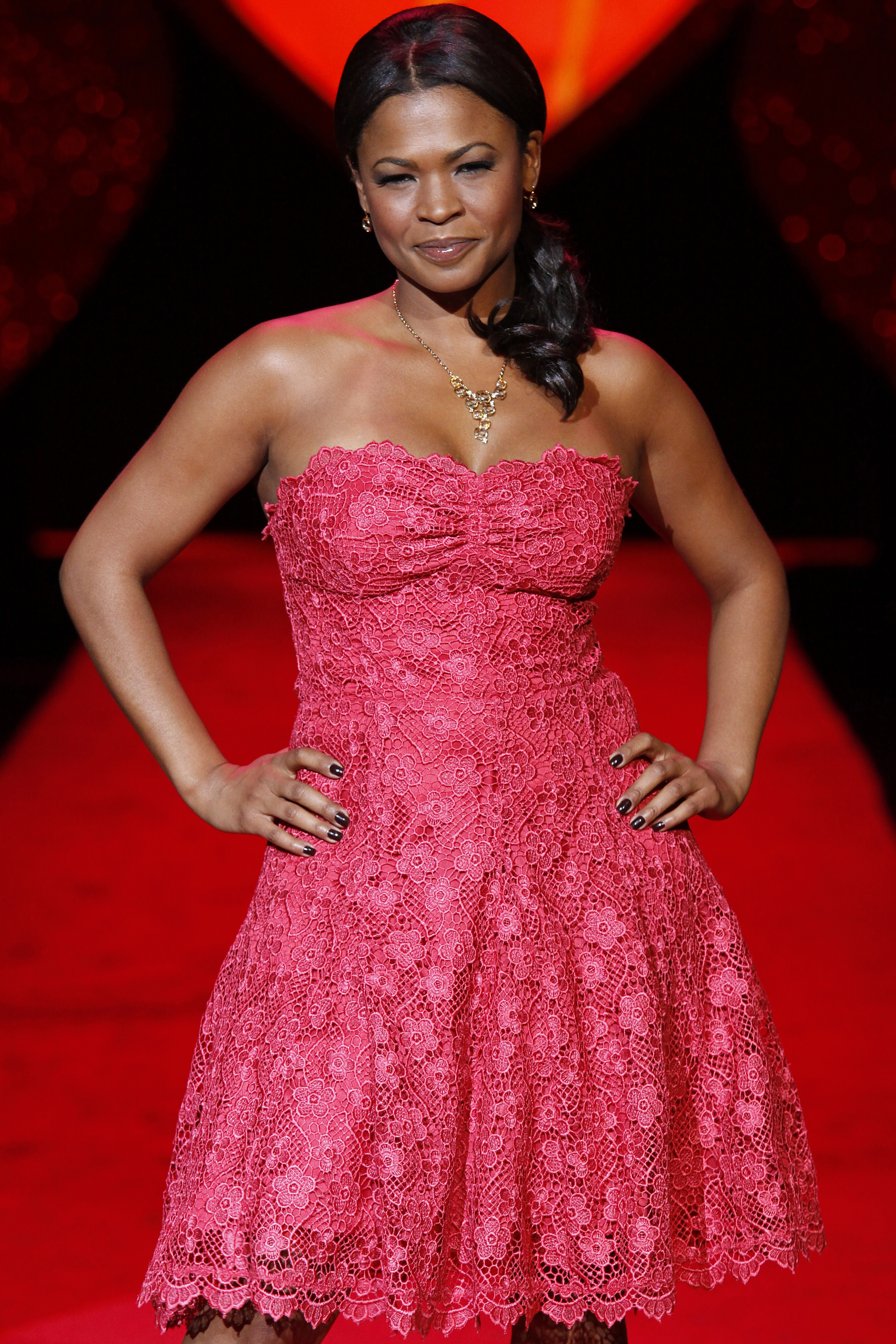 Backstage at The Heart Truth's Red Dress Collection Fashion Show during New York Fashion Week. February 13, 2009 at Bryant Park.